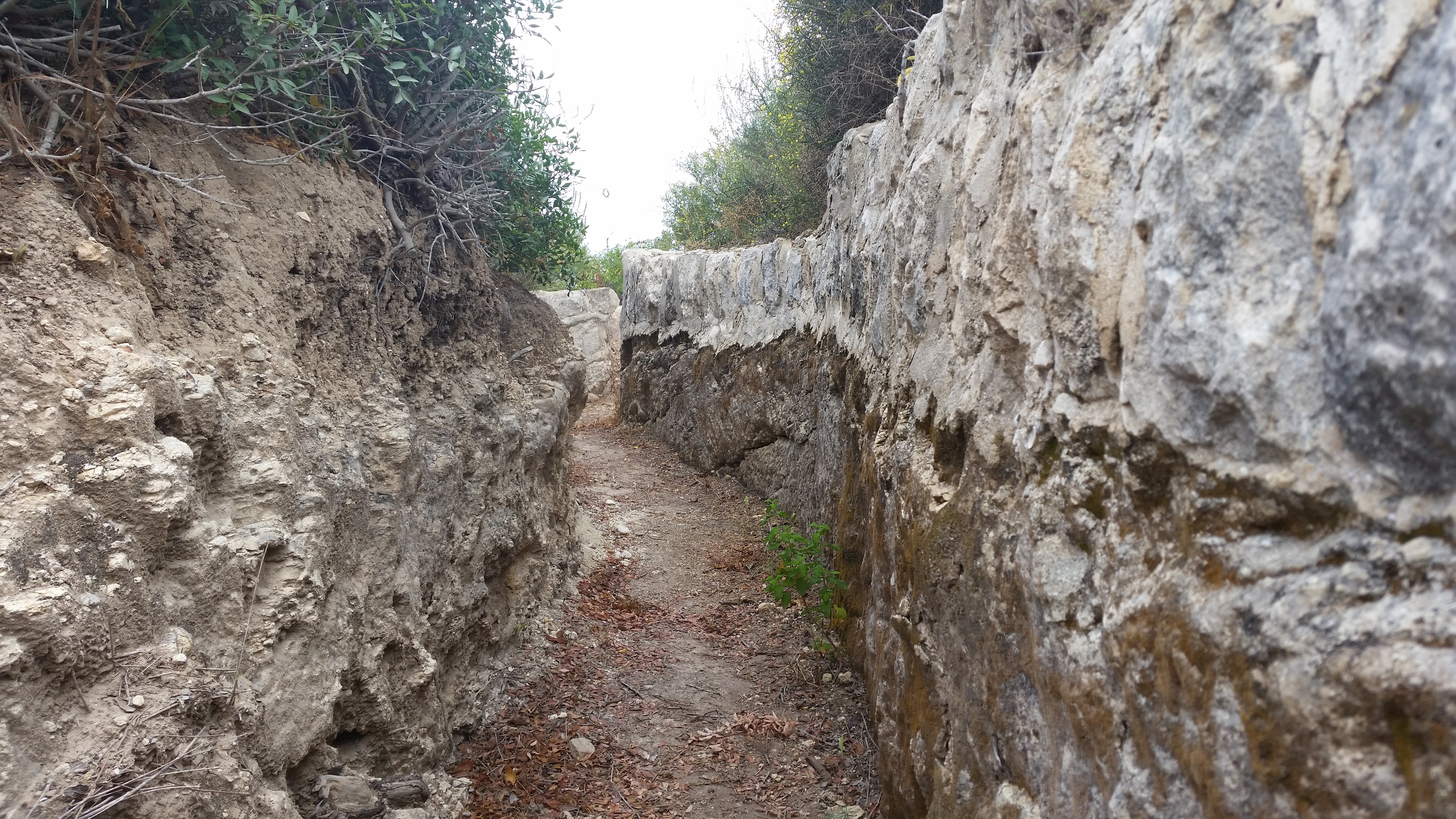 British trench on mount Carmel.